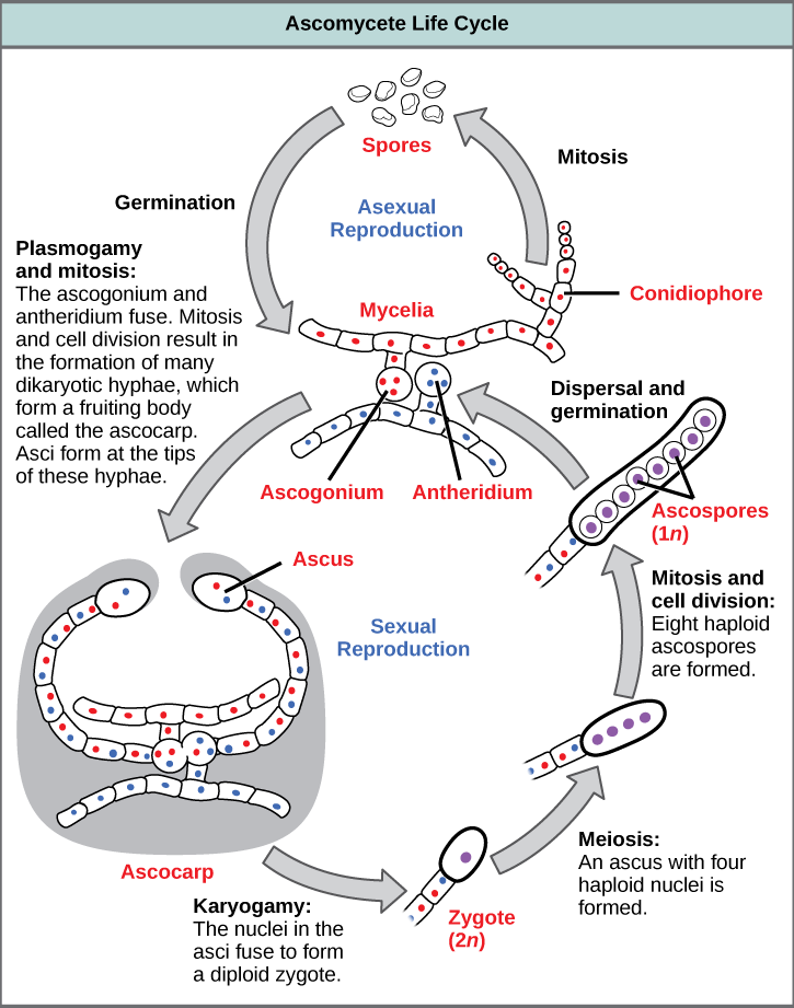 Conidia Formation